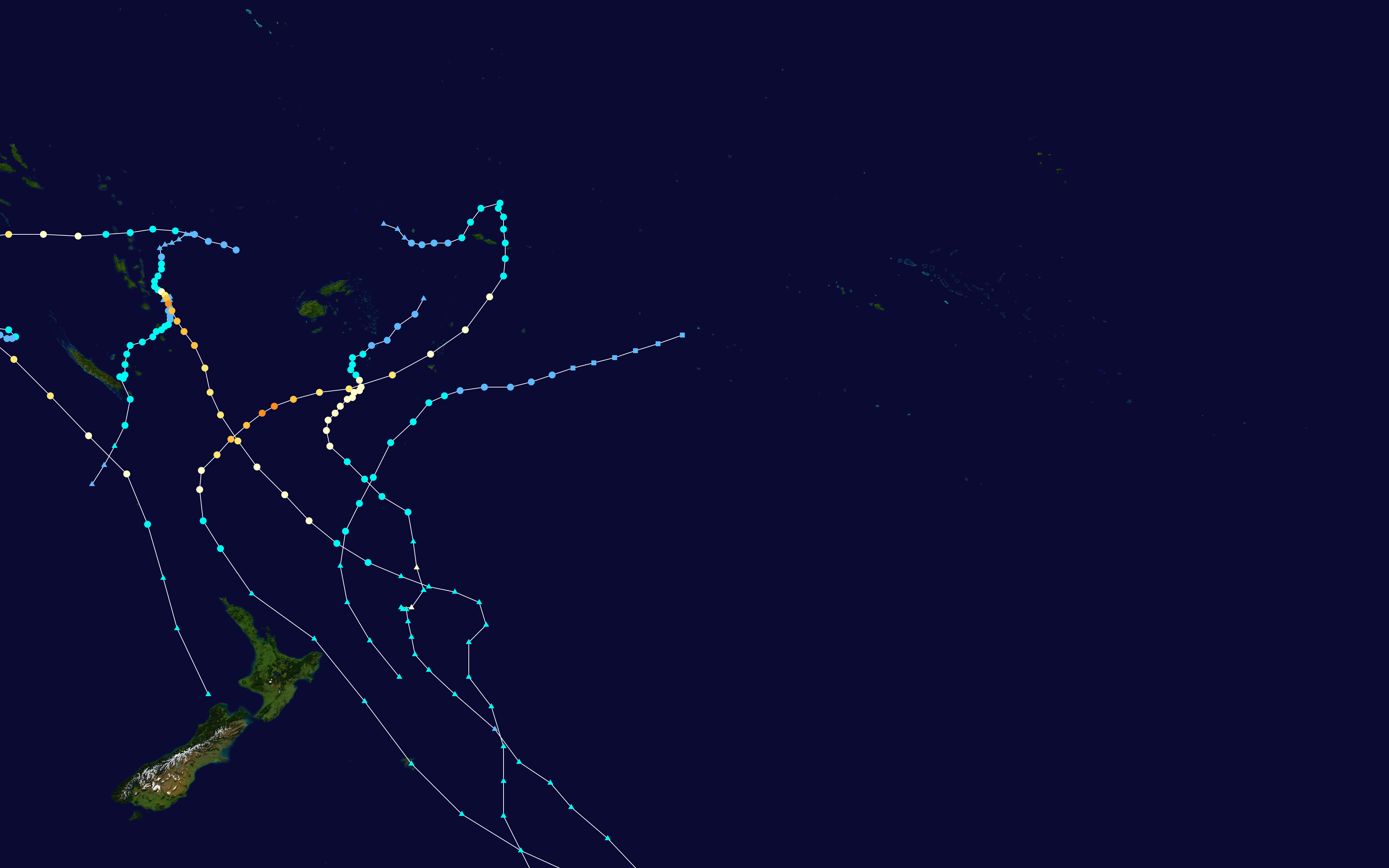 This map shows the tracks of all tropical cyclones in the 2010-11 South Pacific cyclone season. The points show the location of each storm at 6-hour intervals. The colour represents the storm's maximum sustained wind speeds as classified in the Saffir-Simpson Hurricane Scale (see below), and the shape of the data points represent the type of the storm. Saffir–Simpson scale Tropical depression≤38 mph≤62 km/h Category 3111–129 mph178–208 km/h Tropical storm39–73 mph63–118 km/h Category 4130–156 mph209–251 km/h Category 174–95 mph119–153 km/h Category 5≥157 mph≥252 km/h Category 296–110 mph154–177 km/h Unknown Storm type Tropical cyclone Subtropical cyclone Extratropical cyclone / Remnant low / Tropical disturbance / Monsoon depression